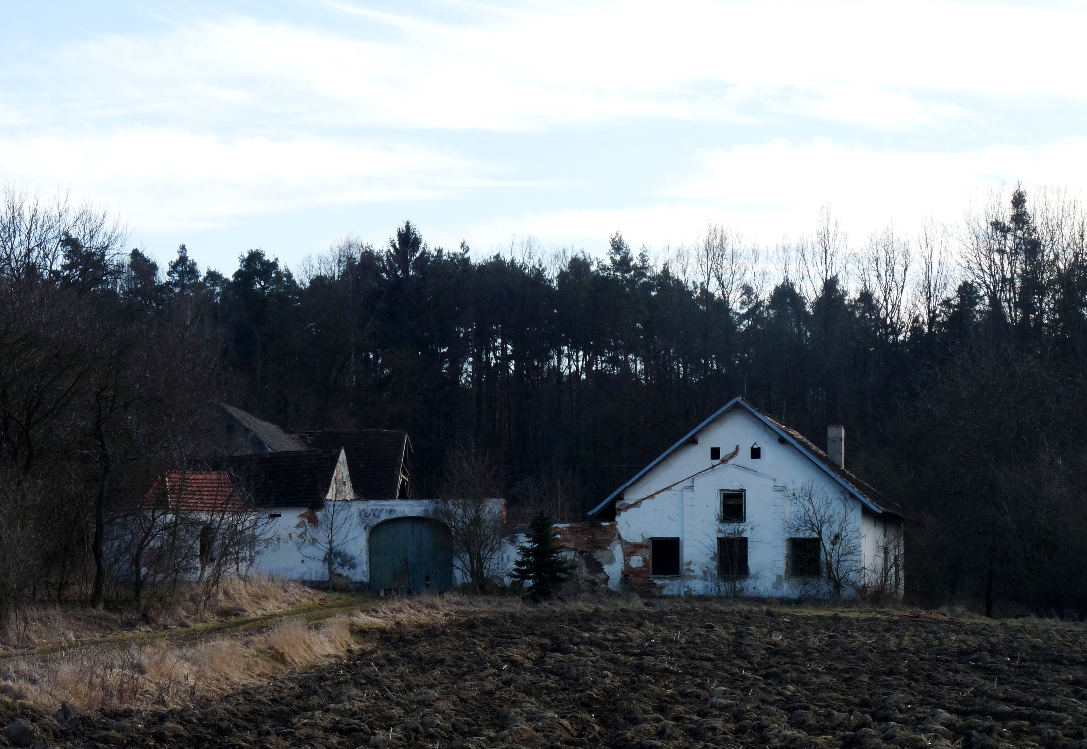 Branišov No 21 and 41, České Budějovice District, South Bohemian Region, Czech Republic.